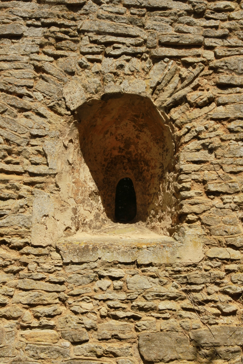 Saxon window on the south side of the tower of St Laurence's parish church, Caversfield, Oxfordshire (Formerly Buckinghamshire)